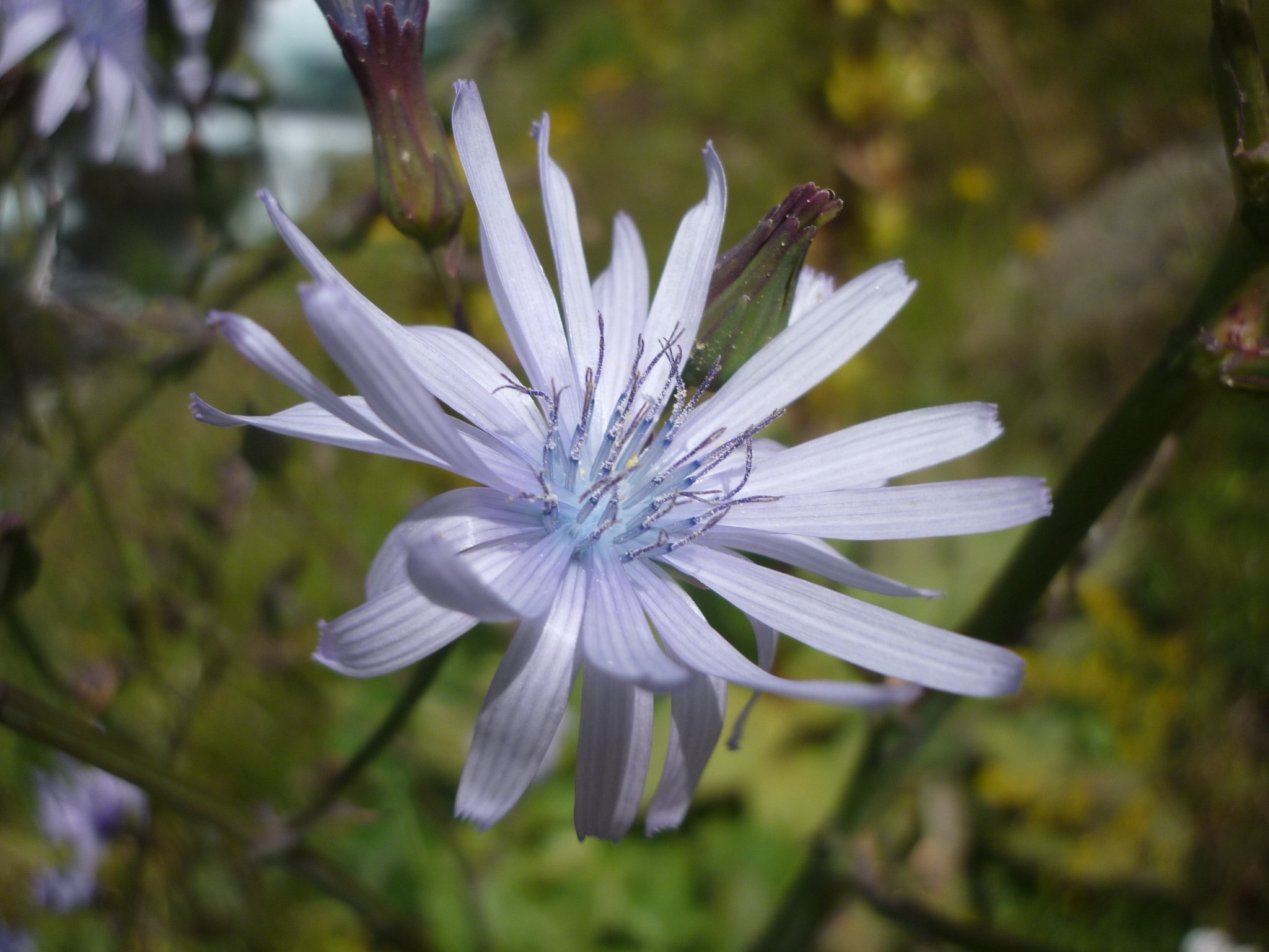 Cicerbita plumieri. In Vielha e Mijaran (Val d'Aran - Catalunya. To 1.570 m altitude